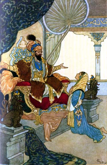 The stories for Arabian Nights Entertainments were published by "Longmans, Green, and Co., London, in 1898, by Andrew Lang (1844-1912). The Color Illustrations are by Rene Bull (1870-1946) the lager Black & white images are by Henry Justice Ford (1872-1941)